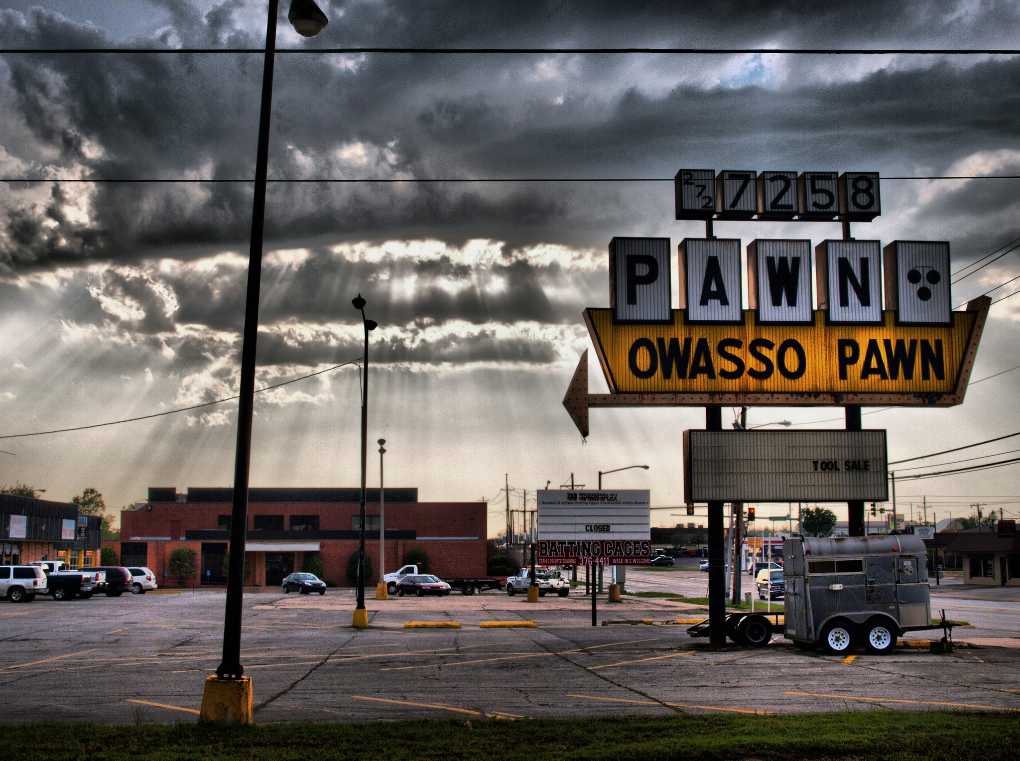 Owasso Pawn Owasso Oklahoma